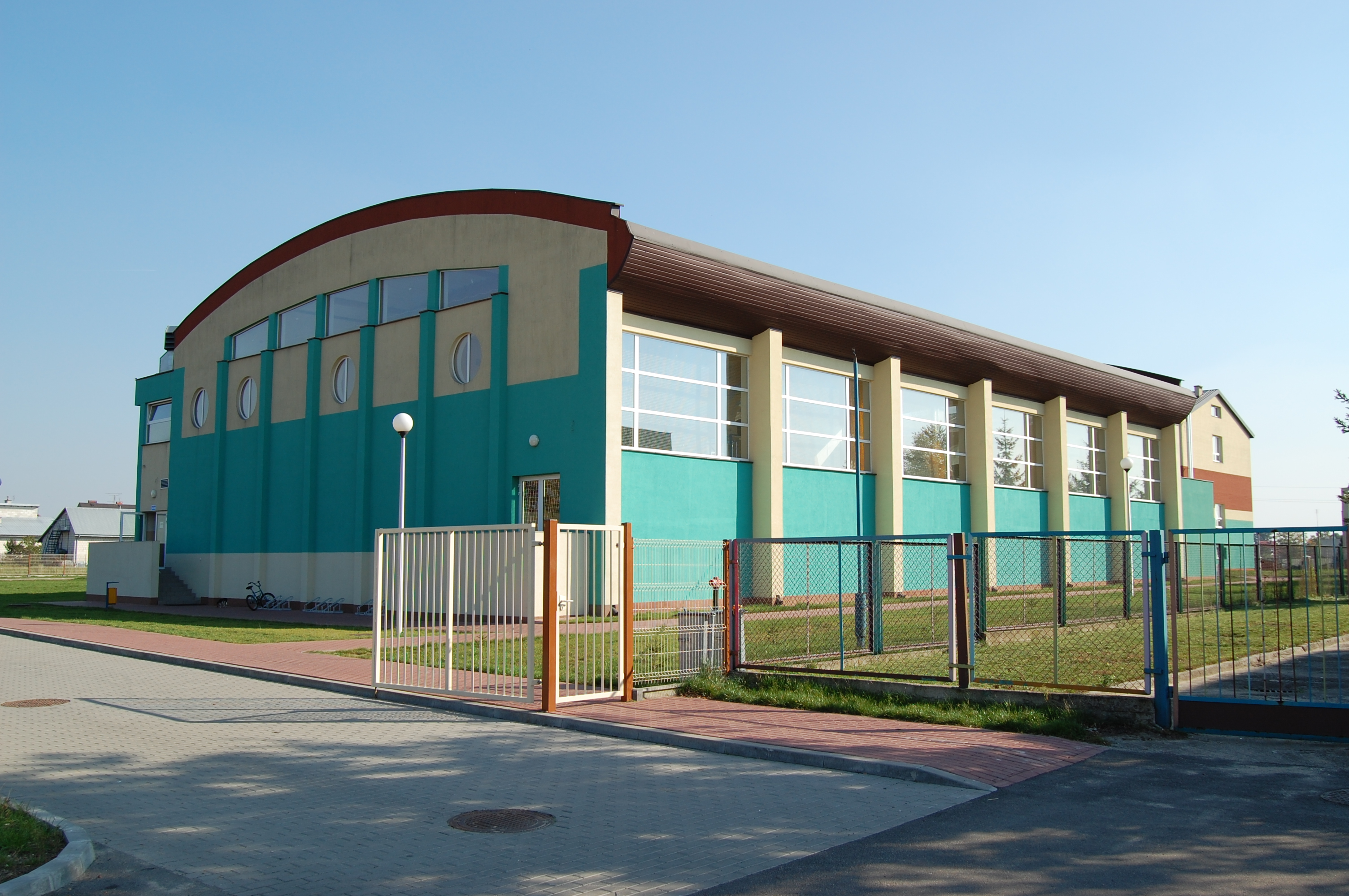 Sport hall in Żelechów, Poland